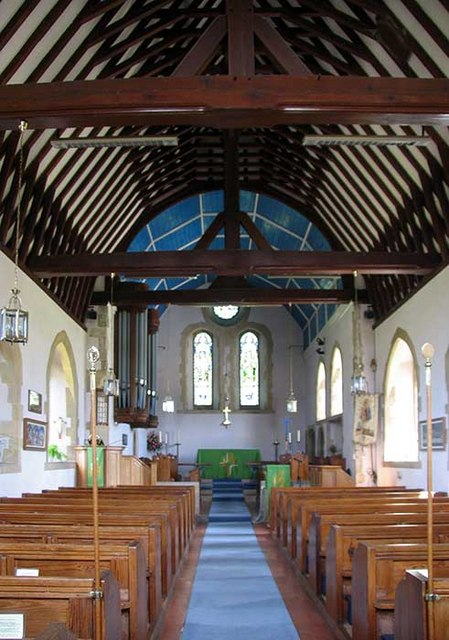 St Mary's Church, Reculver, Kent - East end